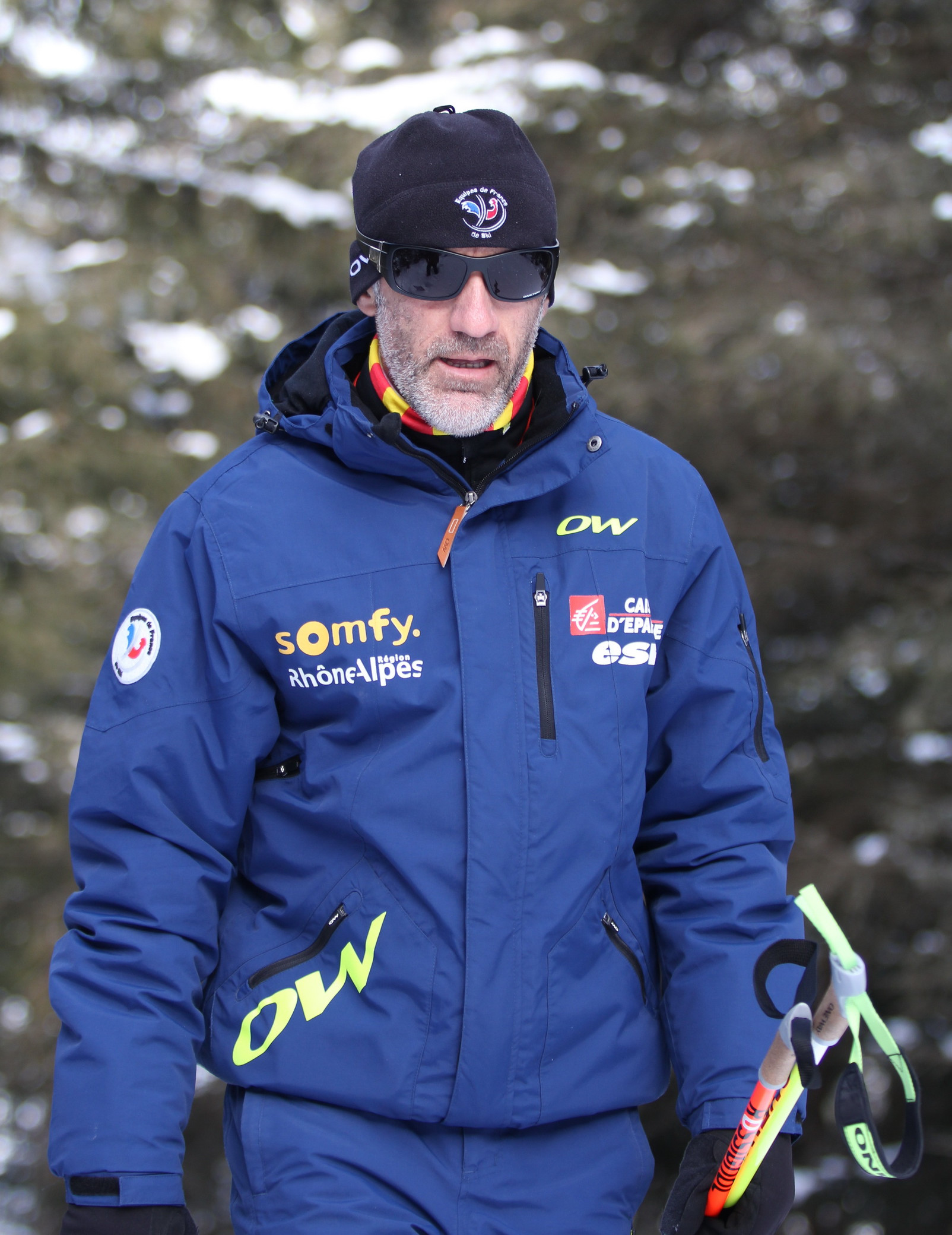 Jean-Paul Gichio at Biathlon Weltcup 2013 in Antholz